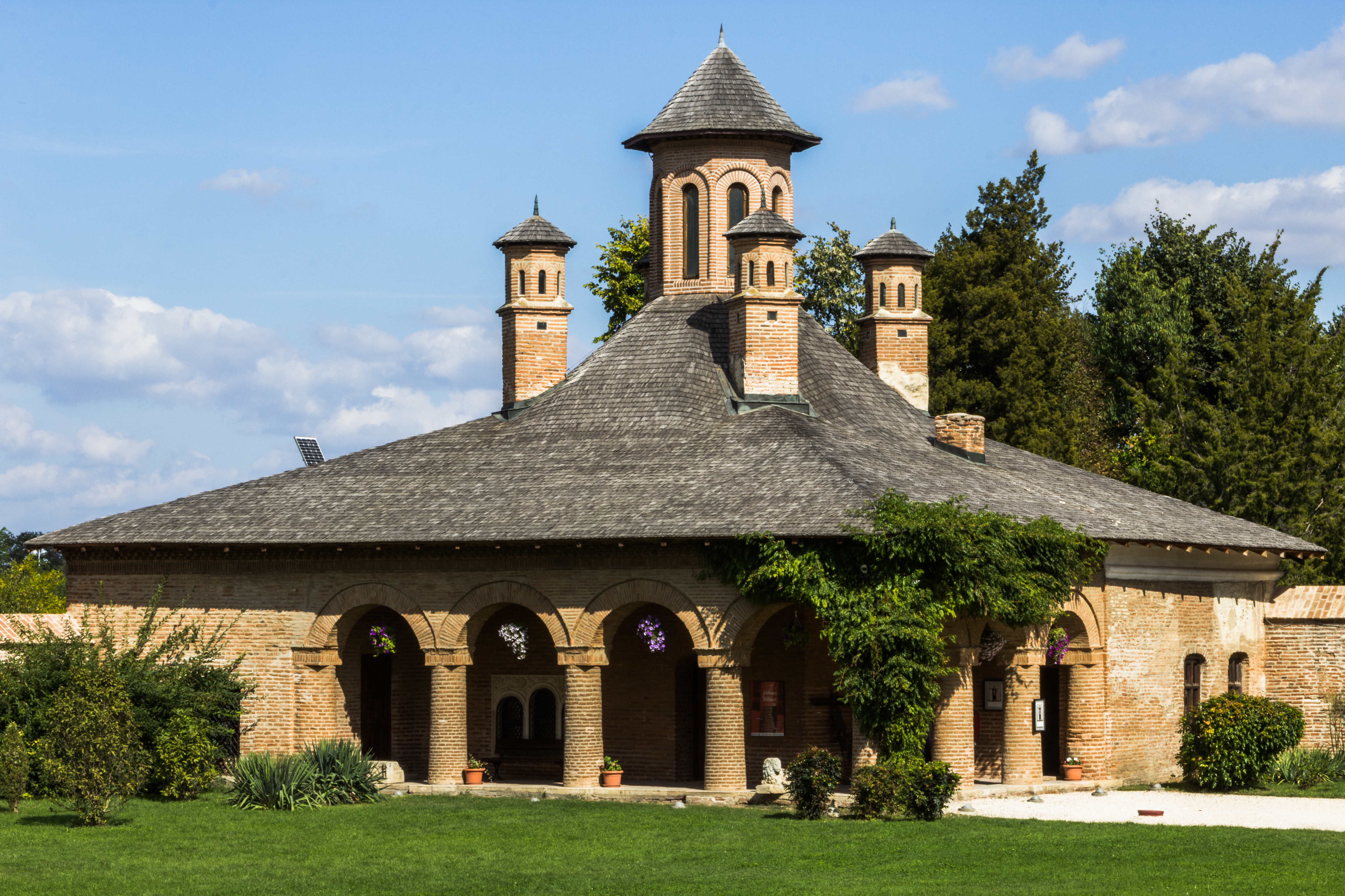 Mogoşoaia Palace, Cuhnia (kitchen Brancovan) 04